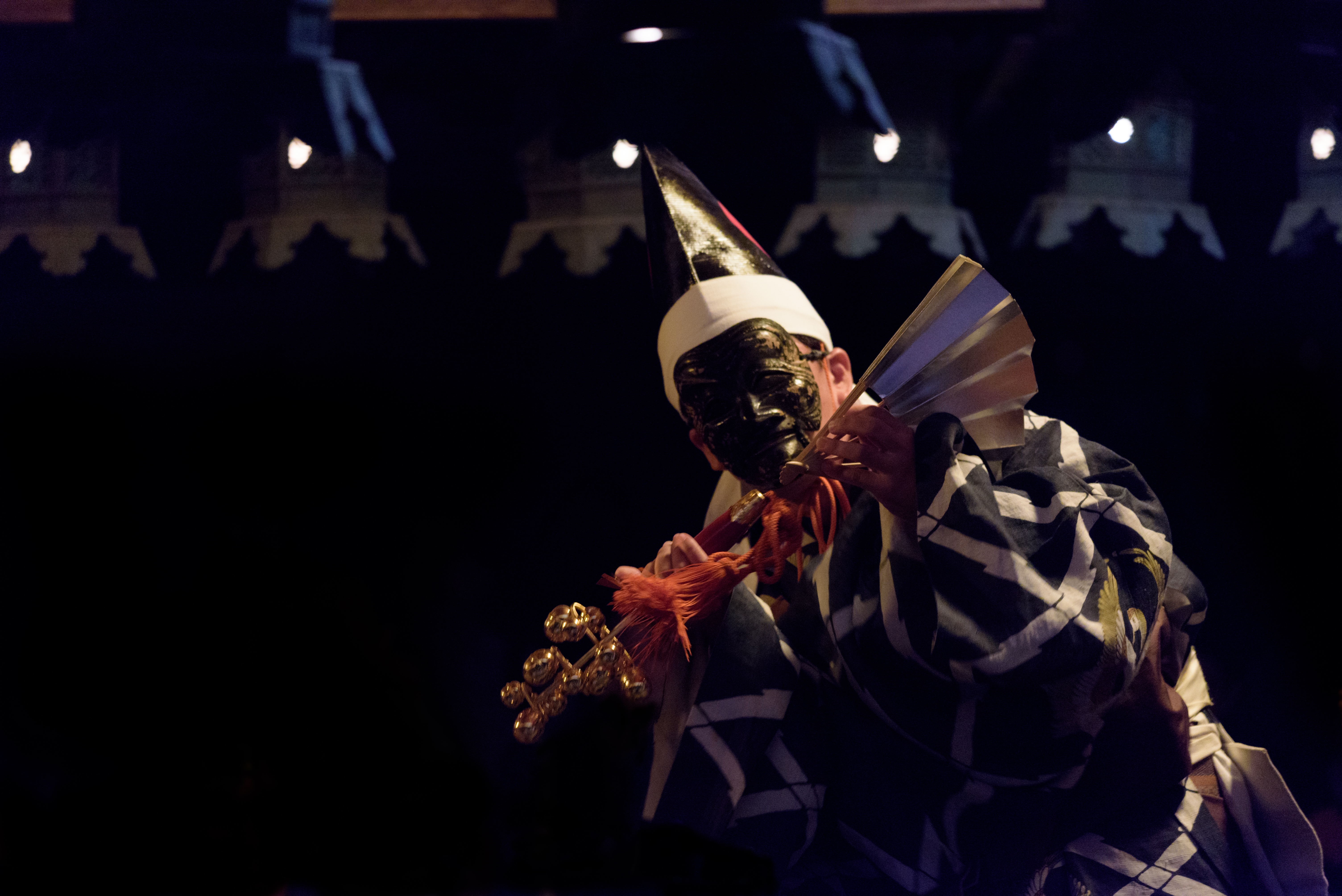 Okina-mai of Naratsuhiko-jinja (奈良豆比古神社の翁舞 Naratsuhiko-jinja no Okina-mai ) is said to be the original form of Nō performance. It is held on the evening of the 8 October. The performance has been recognized as a Important Intangible Cultural Properties of Japan since 27 December 2000. Naratsuhiko-jinja is a Shinto shrine in the city of Nara, in Nara Prefecture, Japan.